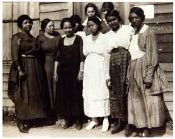 Fannie Hopkins Hamilton's group "The Colored Women's Republican Committee"